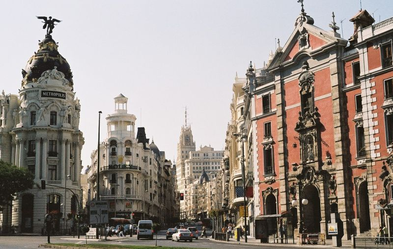 Madrid picture.